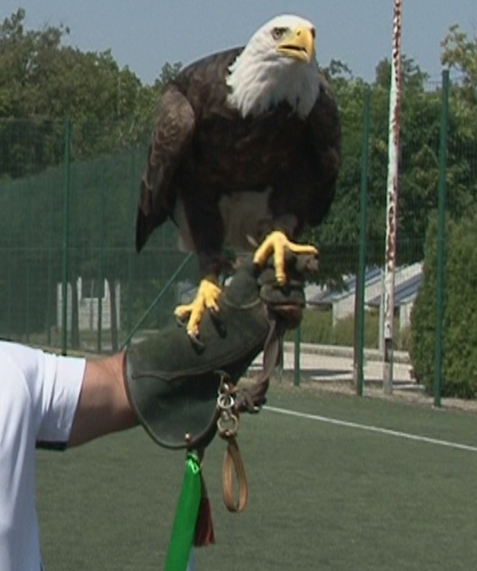 Fortuna - the mascot of PFC Ludogorets Razgrad